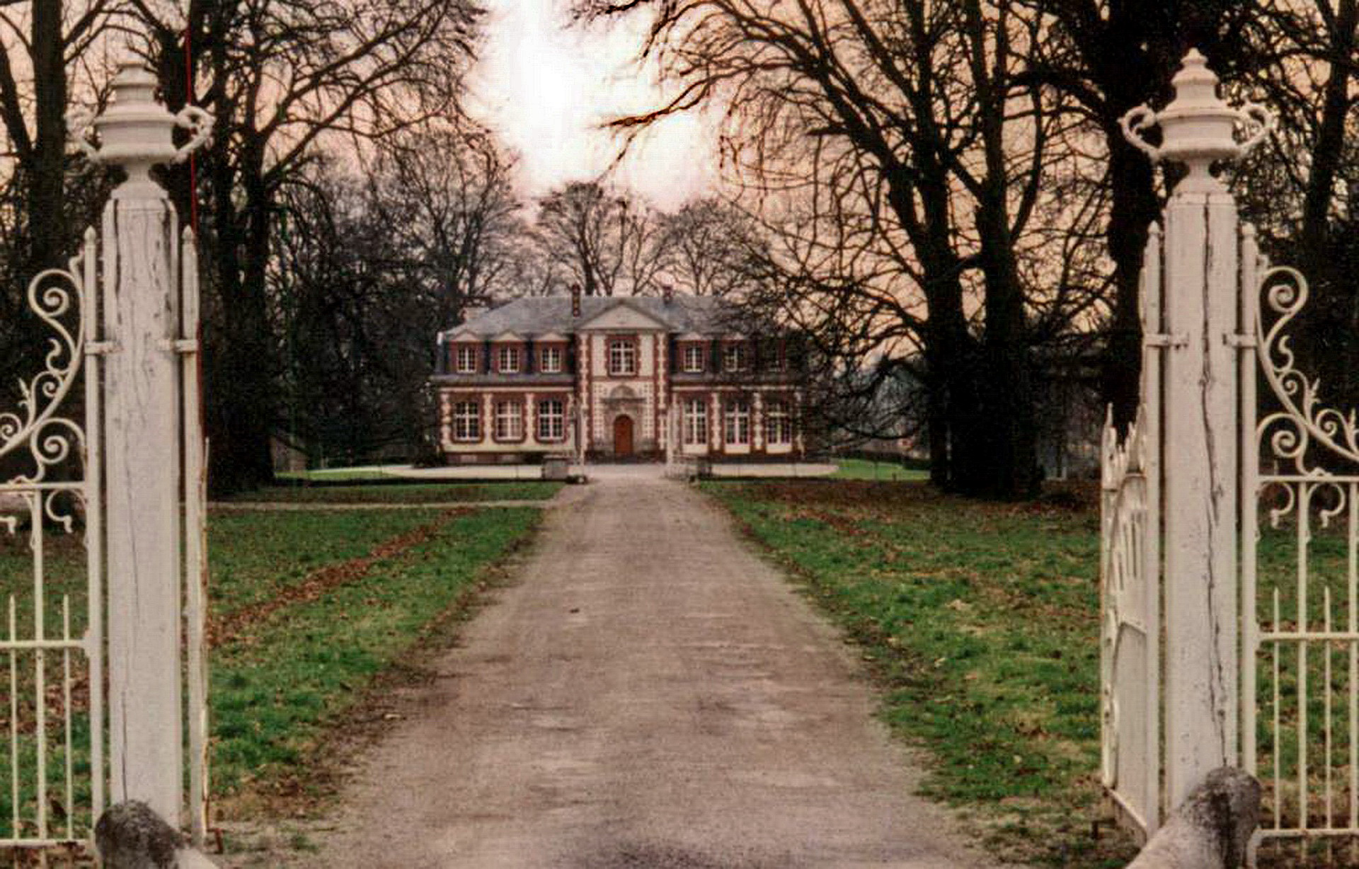 Royon castle in Pas de Calais.